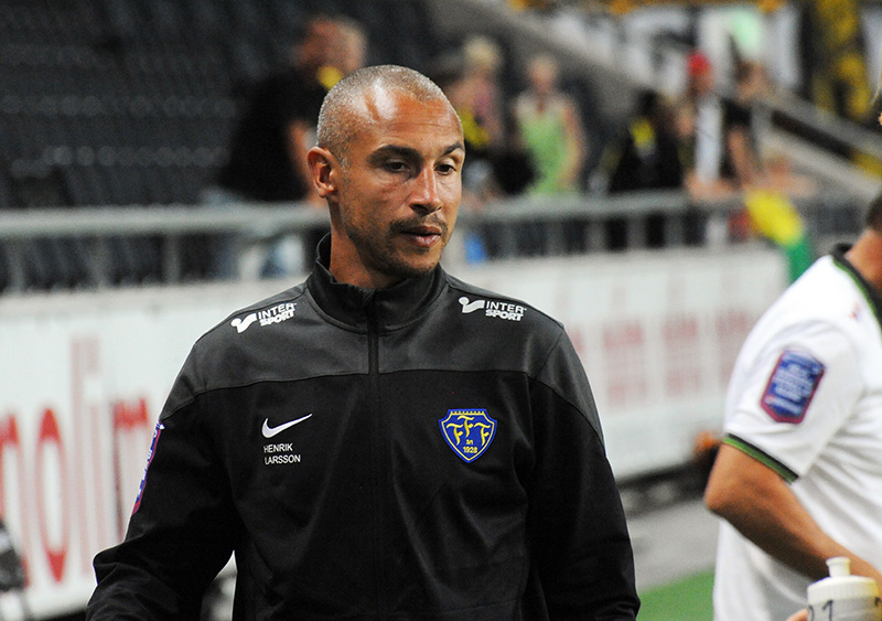 Henrik Larsson, manager of Falkenberg.